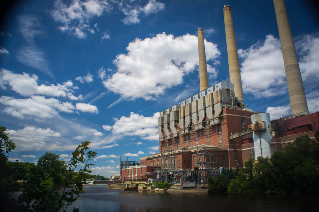 This is the largest power plant in Lansing, Michigan.